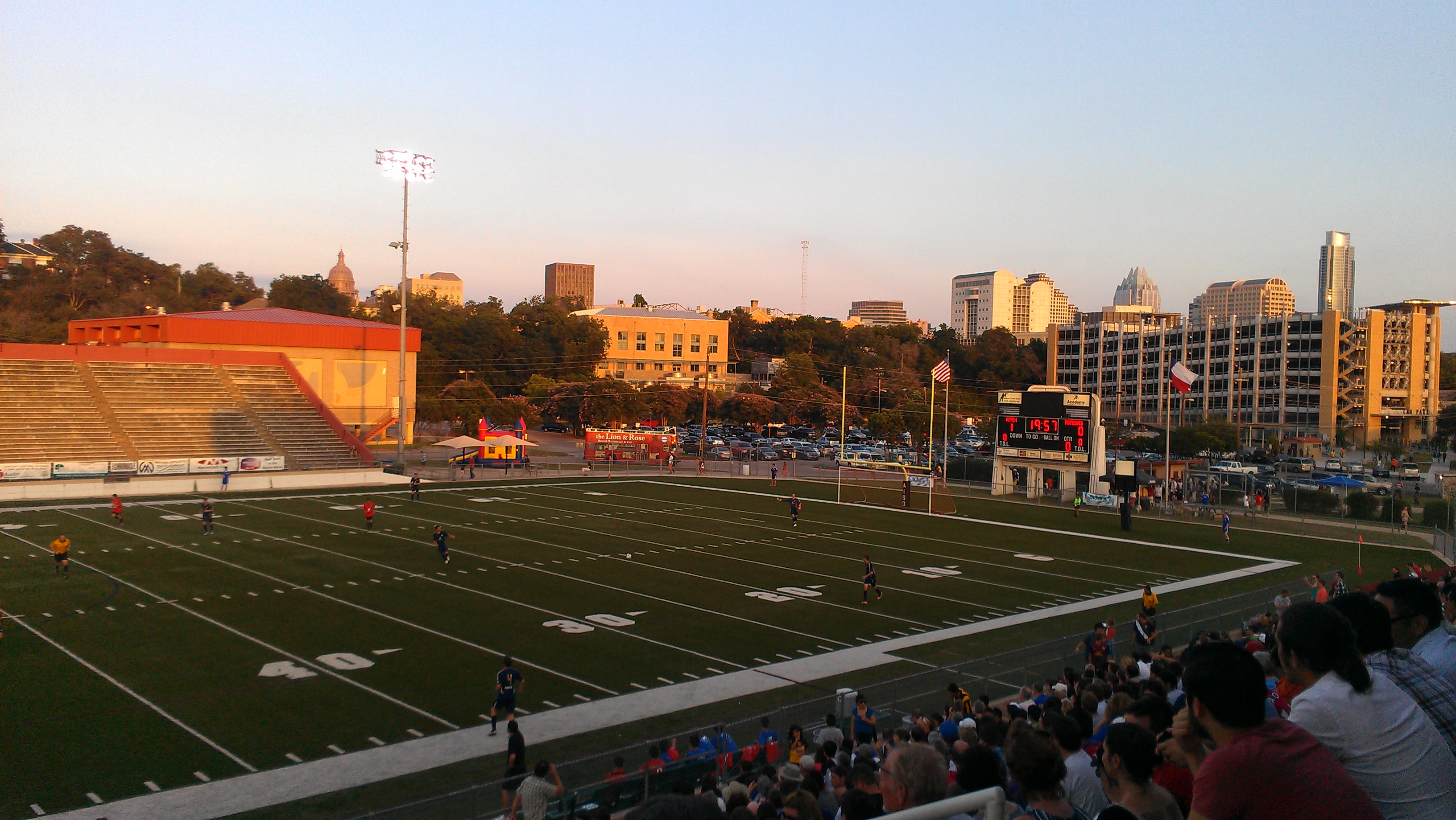 The first ever home game of the Austin Aztex, at House Park in Austin, Texas. They are the second team to hold the name Austin Aztex. The game resulted in a 6-1 win over the El Paso Patriots.